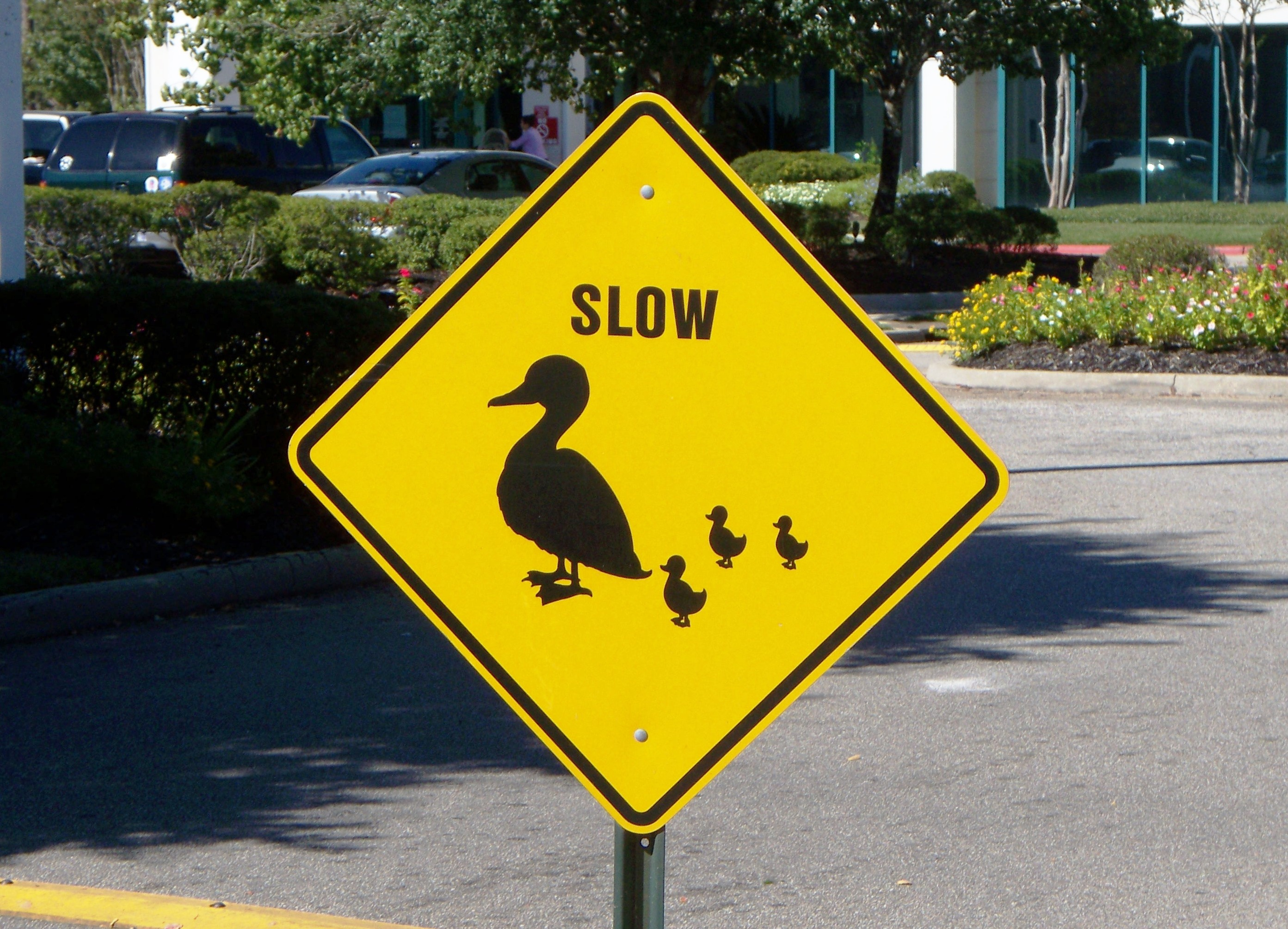 Duck crossing road sign at Lakeview Hospital, Covington, Louisiana, USA. A speed bump, partially visible at the lower left corner of the photograph, accompanies the sign.